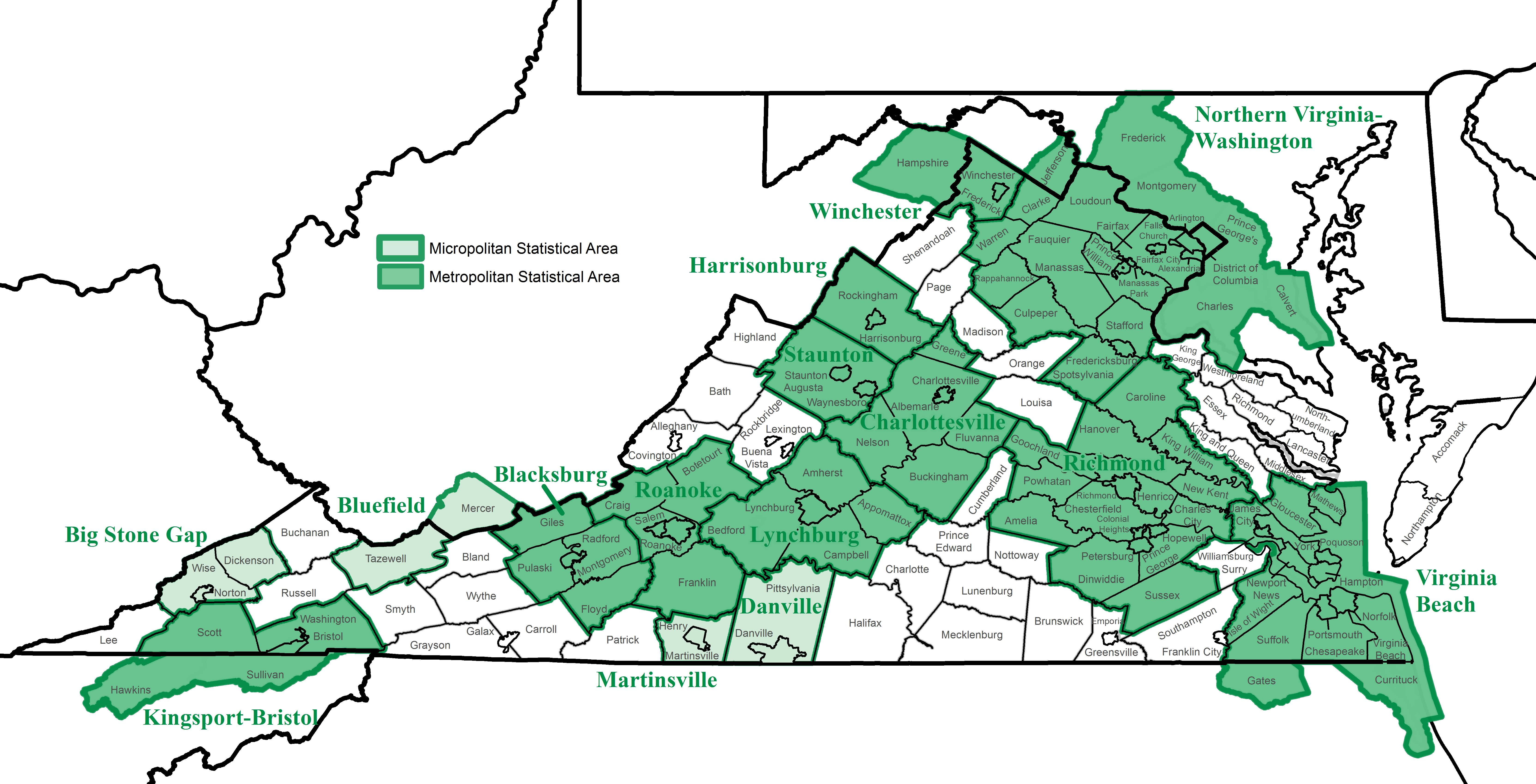 Virginia Metropolitan Statistical Areas 2013